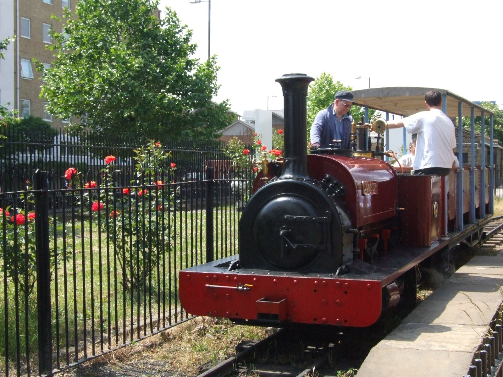 Dosnt Cloister look splendid in her maroon livery. Kew Bridge Steam Museum, London